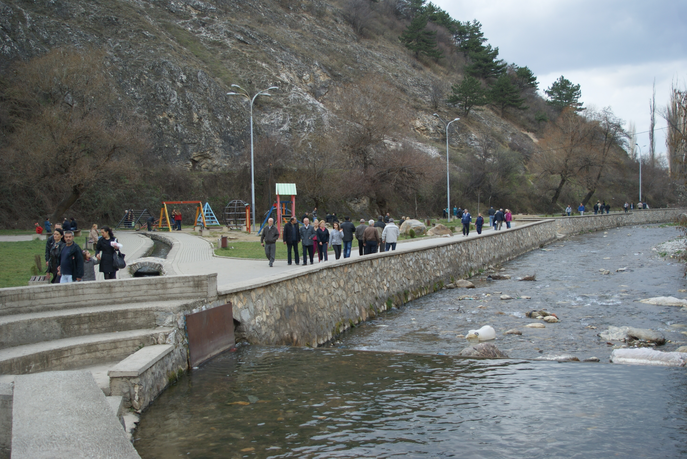 Marashii